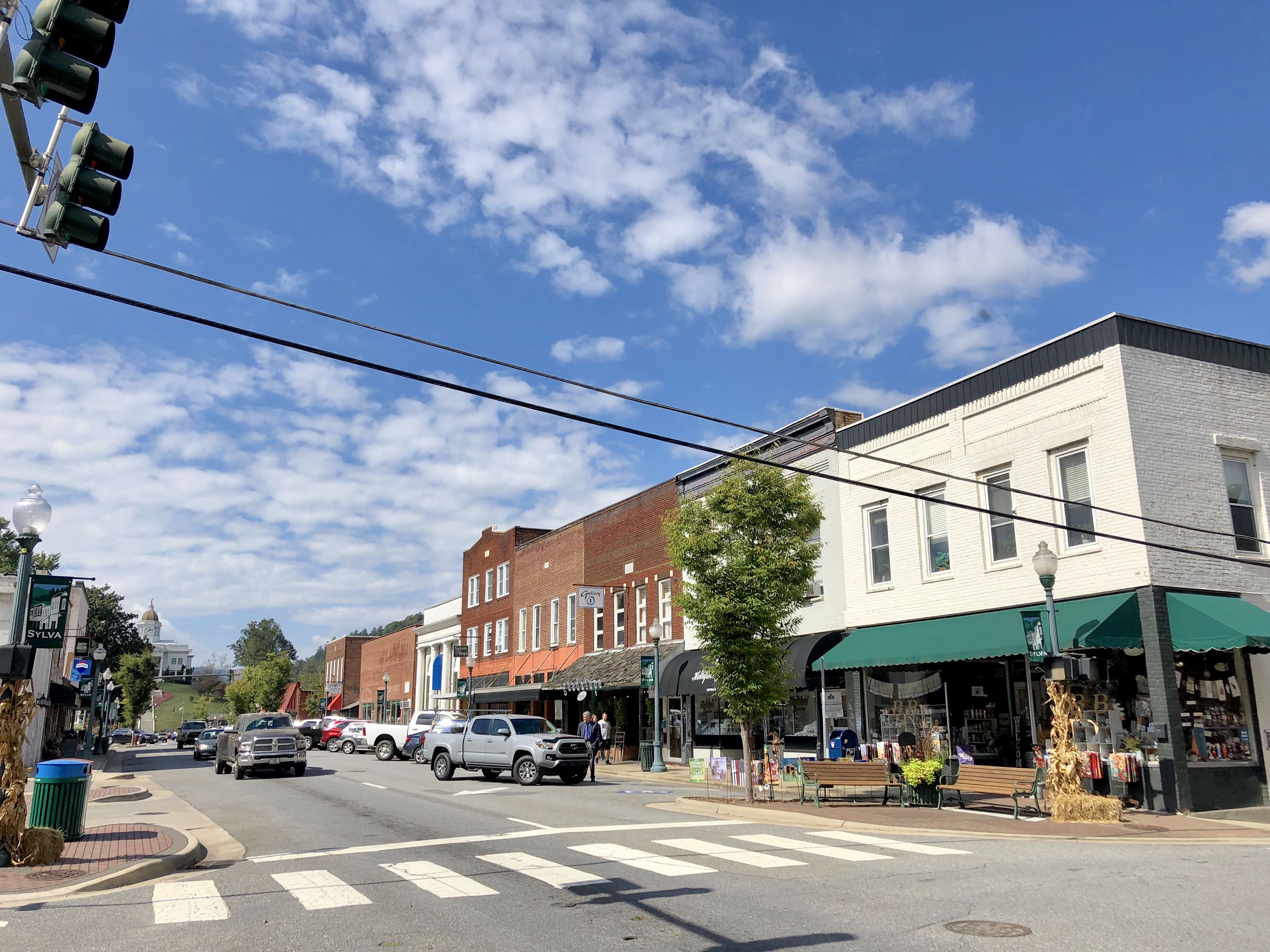 Main Street, Sylva, NC